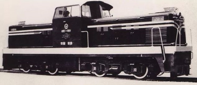 China Railways Hongxing (literally red star) diesel hydraulic locomotive in 1964.